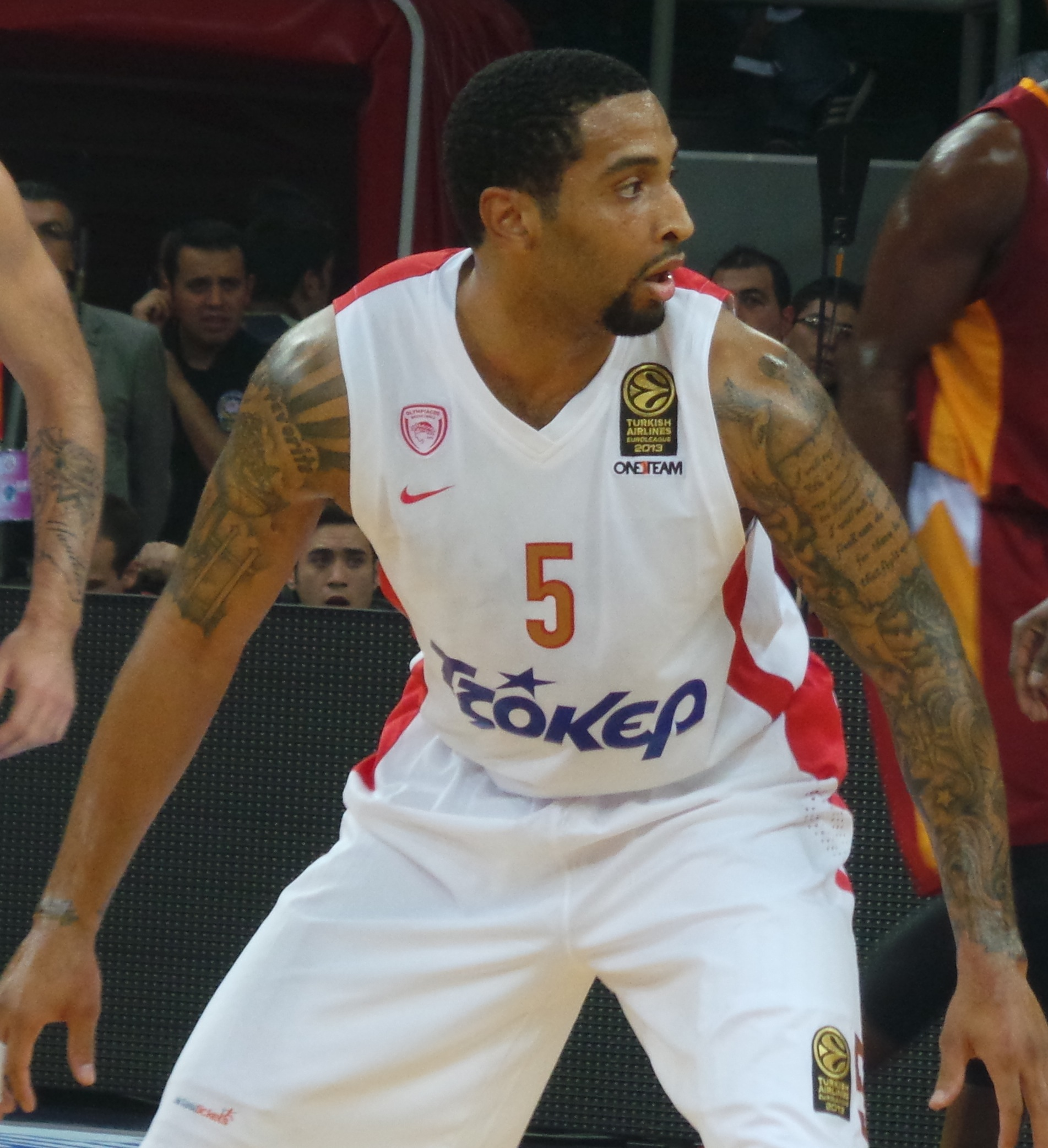 Acie Law